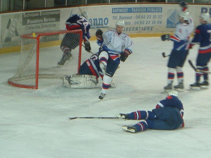 François Rozenthal, french ice hockey player. Euro Ice Hockey Challenge, 2003, Briançon, France.